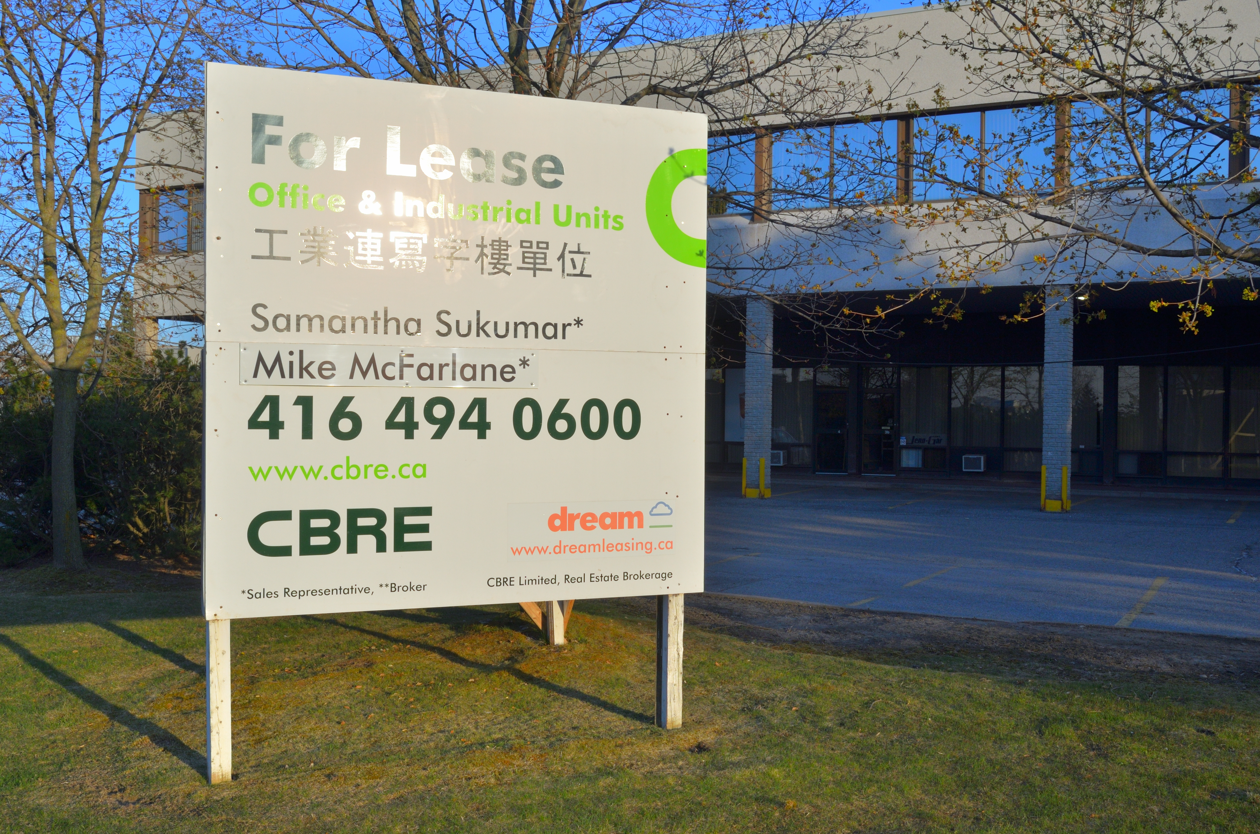 Offices (45 West Wilmot Street, Richmond Hill, Ontario L4B 1L7) for lease - CBRE listing